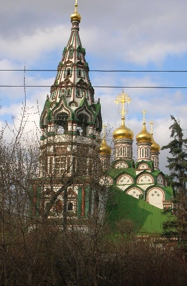 Church of St. Nicholas in Khamovniki, Moscow (1679-82). It was a parish church of Leo Tolstoy.